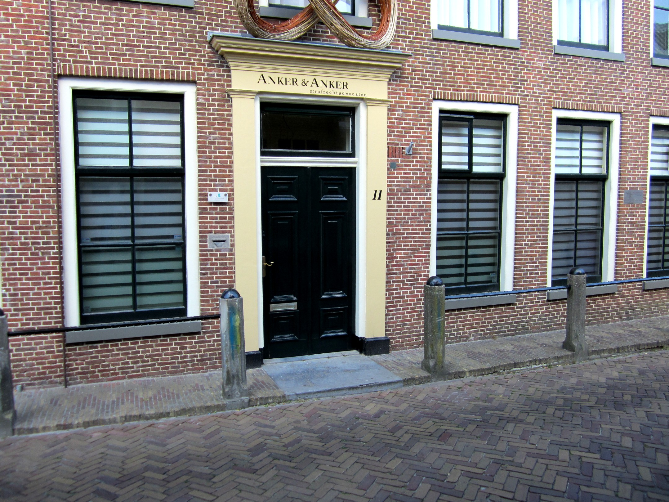 Lawyers' office of Anker & Anker Strafrechtadvocaten in Leeuwarden/Ljouwert, Friesland, the Netherlands.